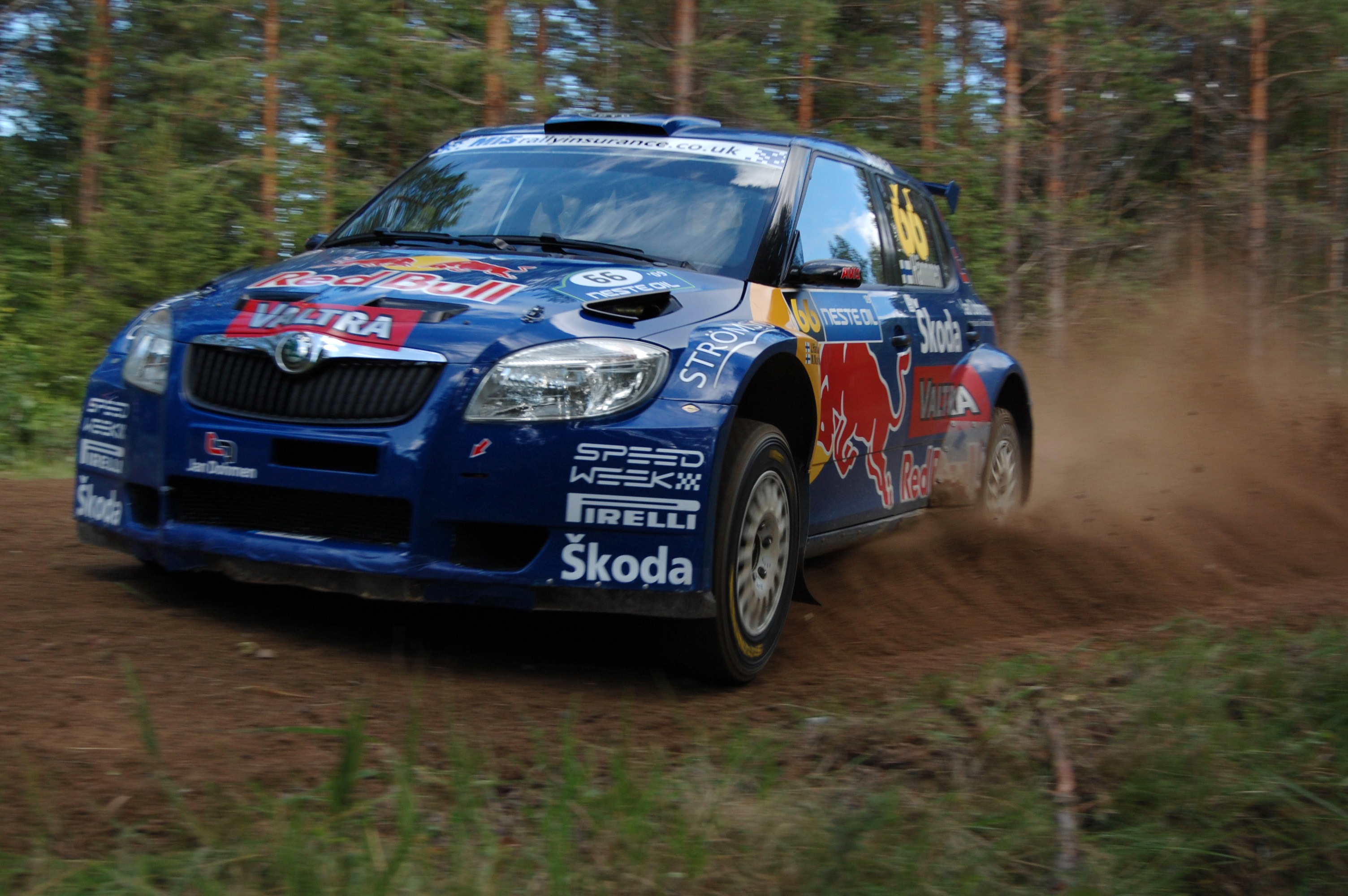 Juho Hänninen - 2009 Rally Finland. More pictures on my website